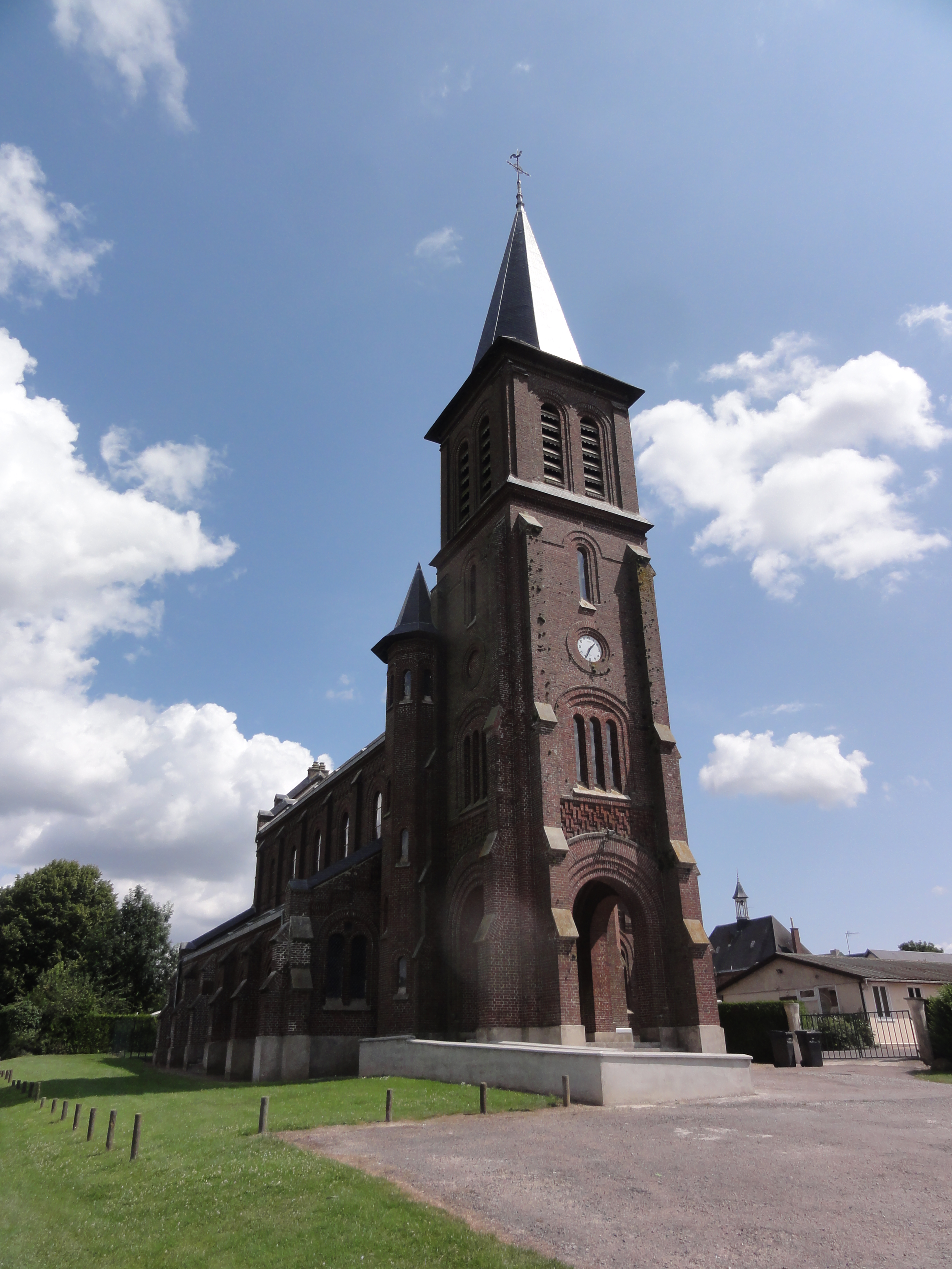 Béthancourt-en-Veaux (Aisne) église Saint-Médard